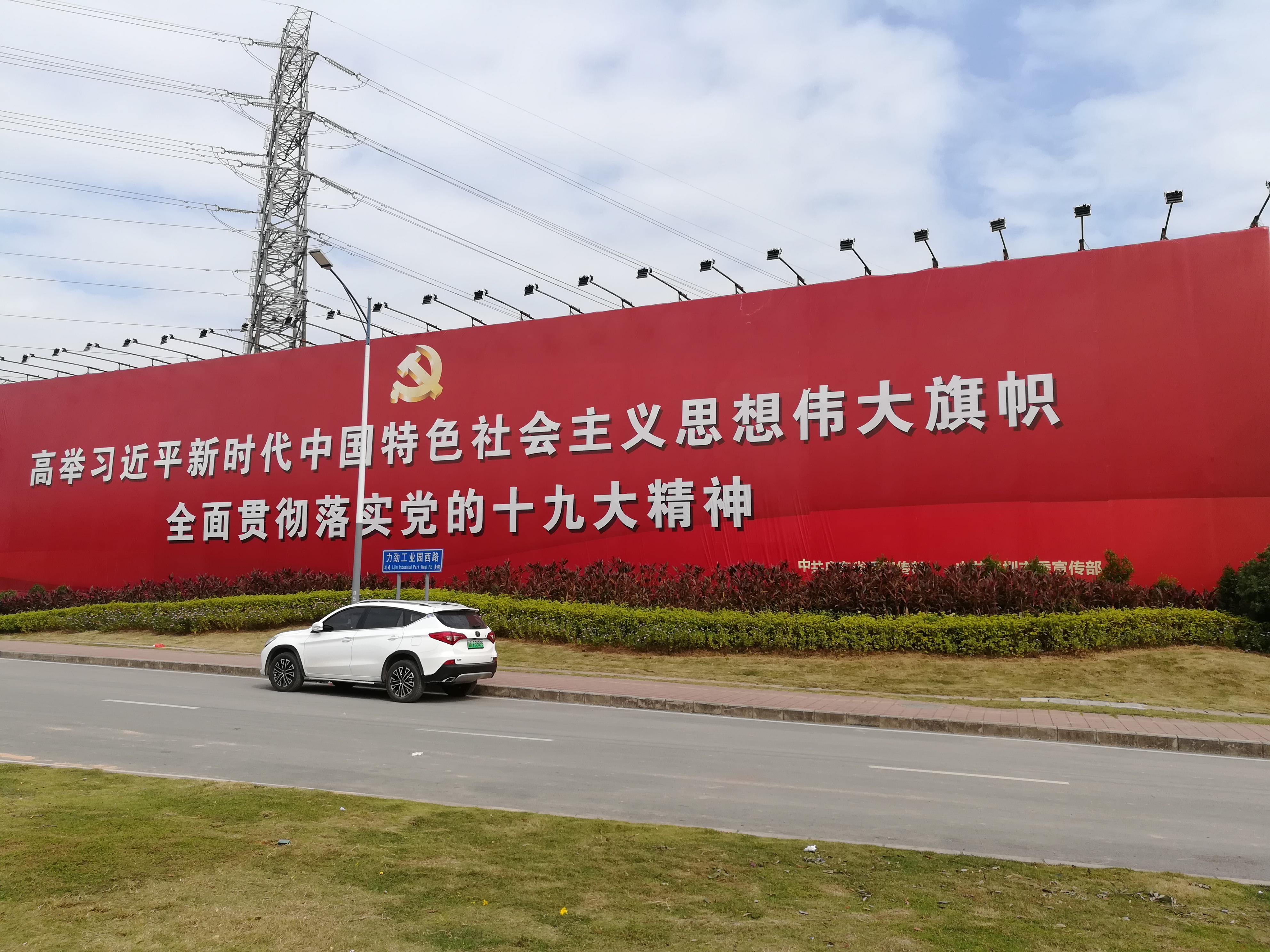 A political slogan on the wall in Longhua District, it reads: Holding high the "great banner of socialism with Chinese characteristics for a New Era. We should fully implement the of spirit of the 19th CPC National Congress." Holding high the "great banner of socialism with Chinese characteristics for a New Era" is one of the symbols of the 19th CPC National Congress, which has been written in the history book. 中文（中国大陆）: 中国广东省深圳市龙华区的标语：高举习近平新时代中国特色社会主义思想伟大旗帜，全面贯彻落实党的十九大精神。